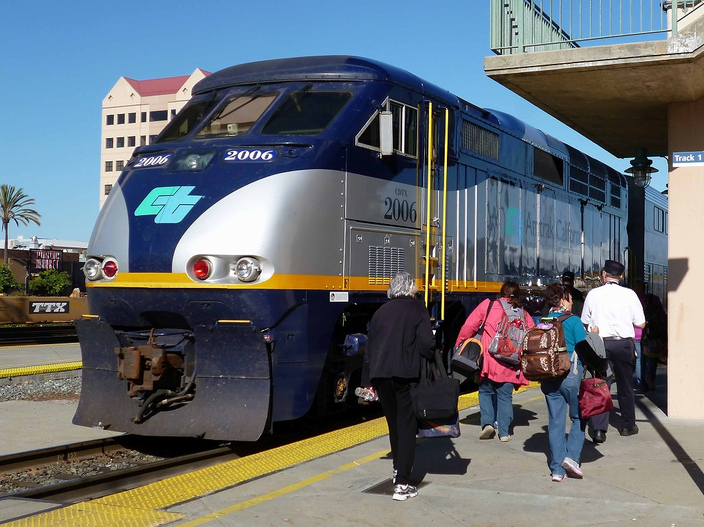 A locomotive wearing a new Amtrak California logo